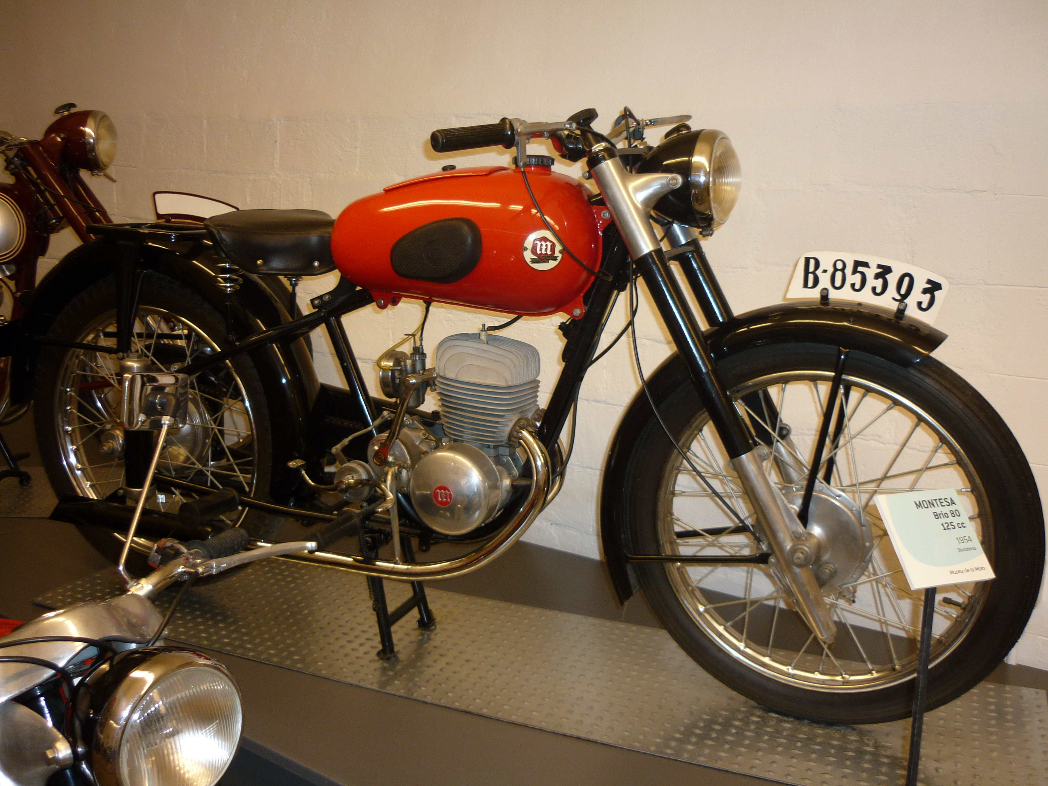 Montesa Brio 80 125cc (1954)